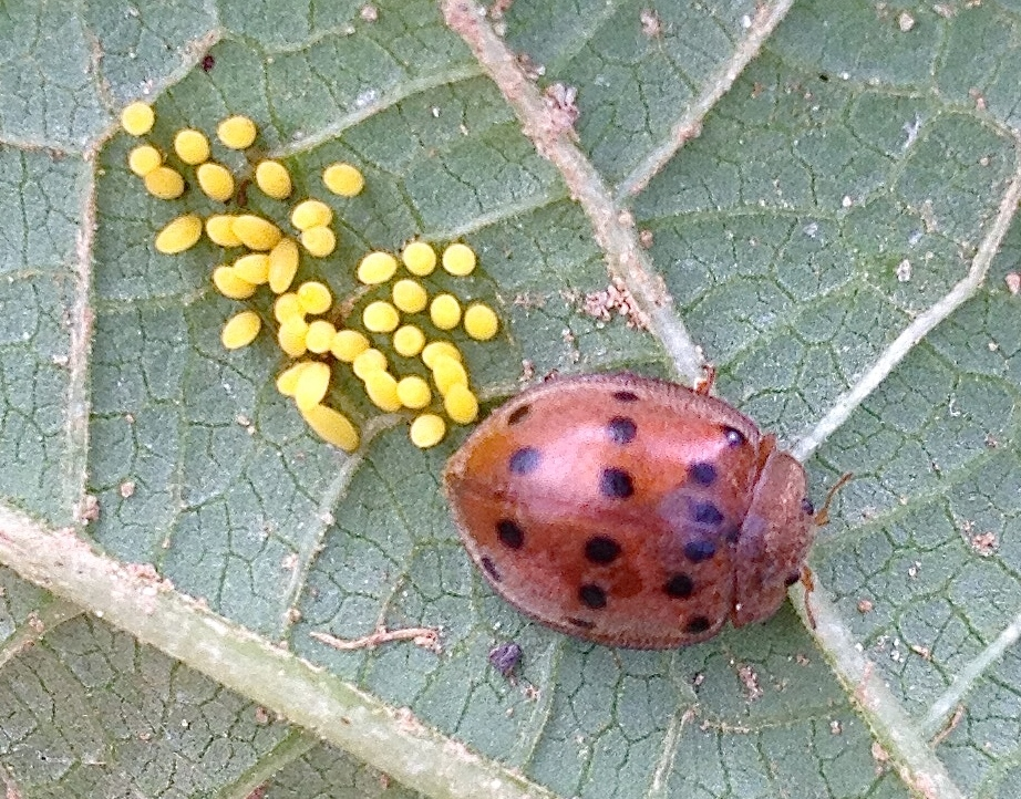 Mexican bean beetle adult laying eggs